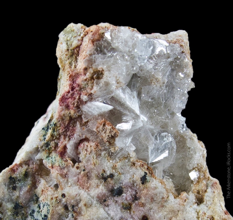 Junitoite Dimension: 3.5 x 3.0 x 1.8 cm Locality: Christmas Mine, Christmas, Christmas area, Banner District, Dripping Spring Mountains, Gila County, Arizona, USA Description: A wealth of vitreous to pearly junitoite crystals to 4mm adorn one end of this specimen. These crystals are about as large as they get. This is a fine example of this rare calcium zinc silicate from the one-time find at the Christmas mine. A significant USA rarity.